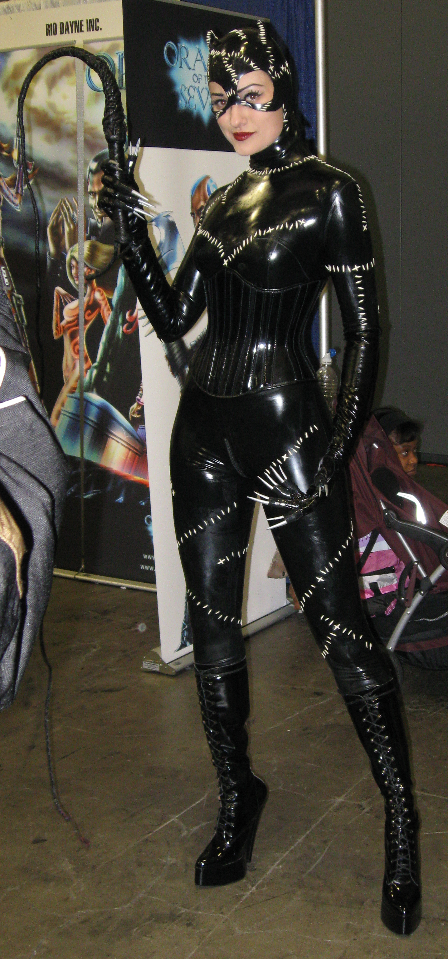 Stitch-style Catwoman strikes a pose.